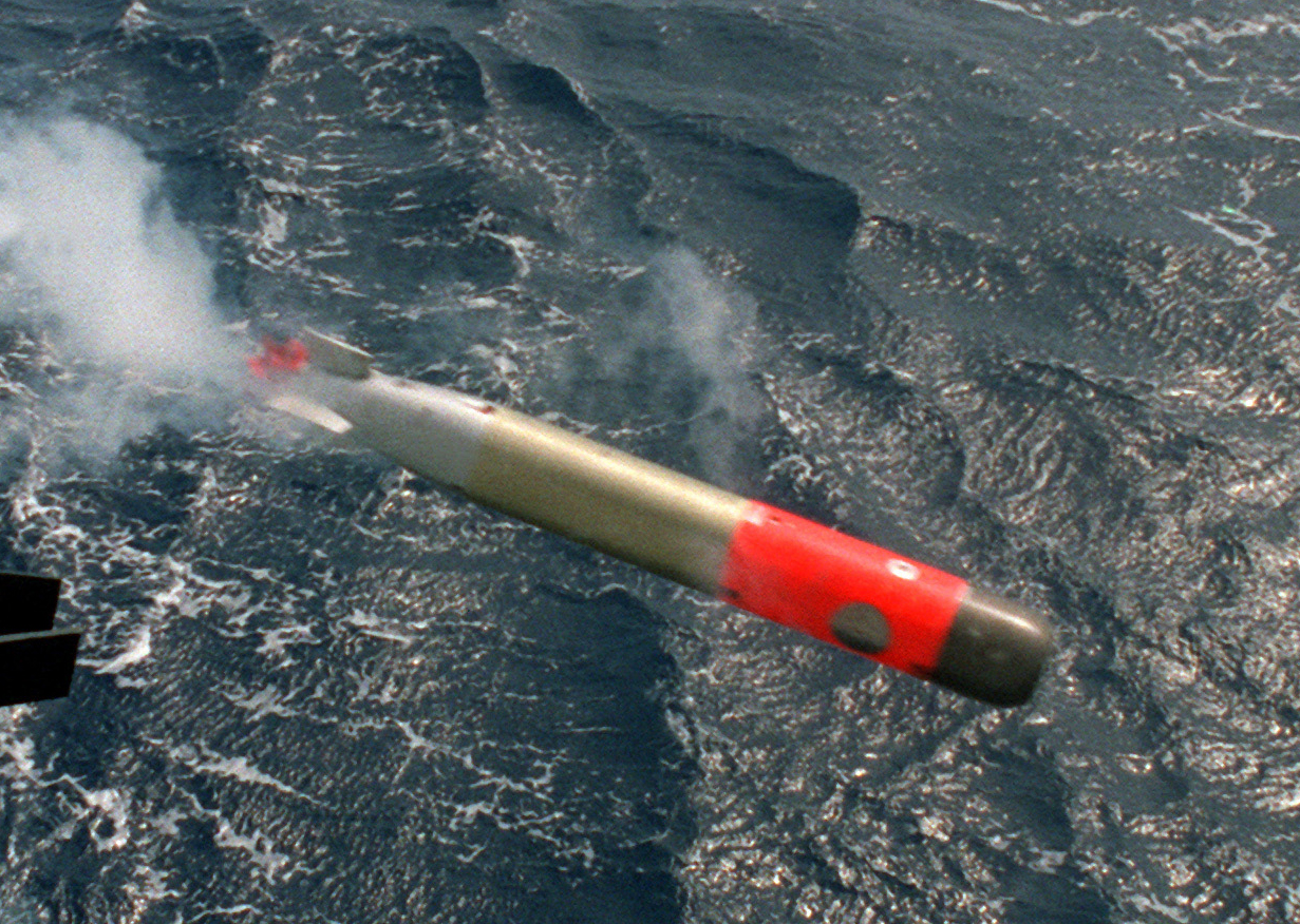 Mark 46 is launched from a U.S. Navy Oliver Hazard Perry Class frigate during Exercise RimPac '86